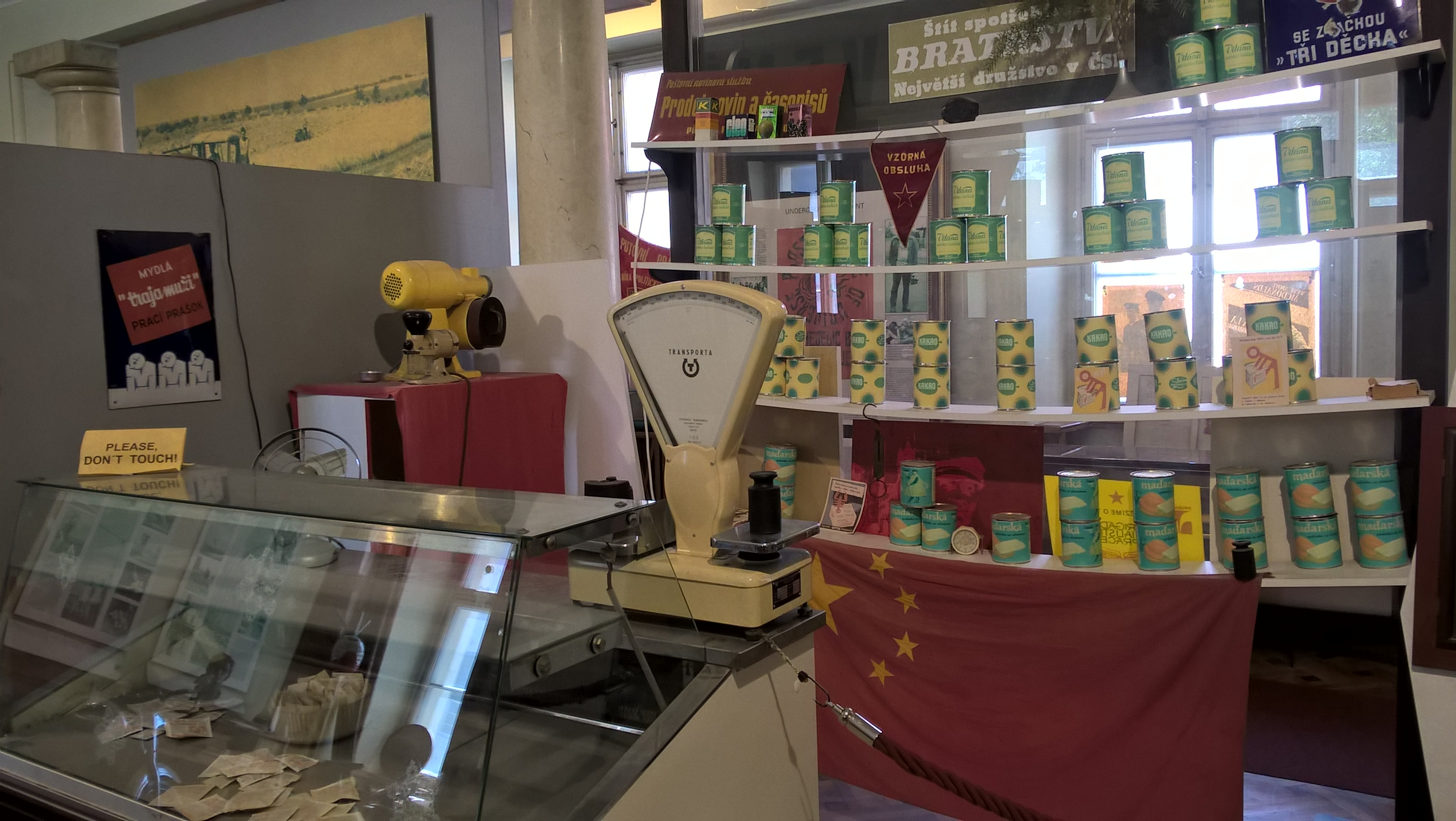 Museum of Communism, Prague. Recreation of the interior of a grocer's shop.